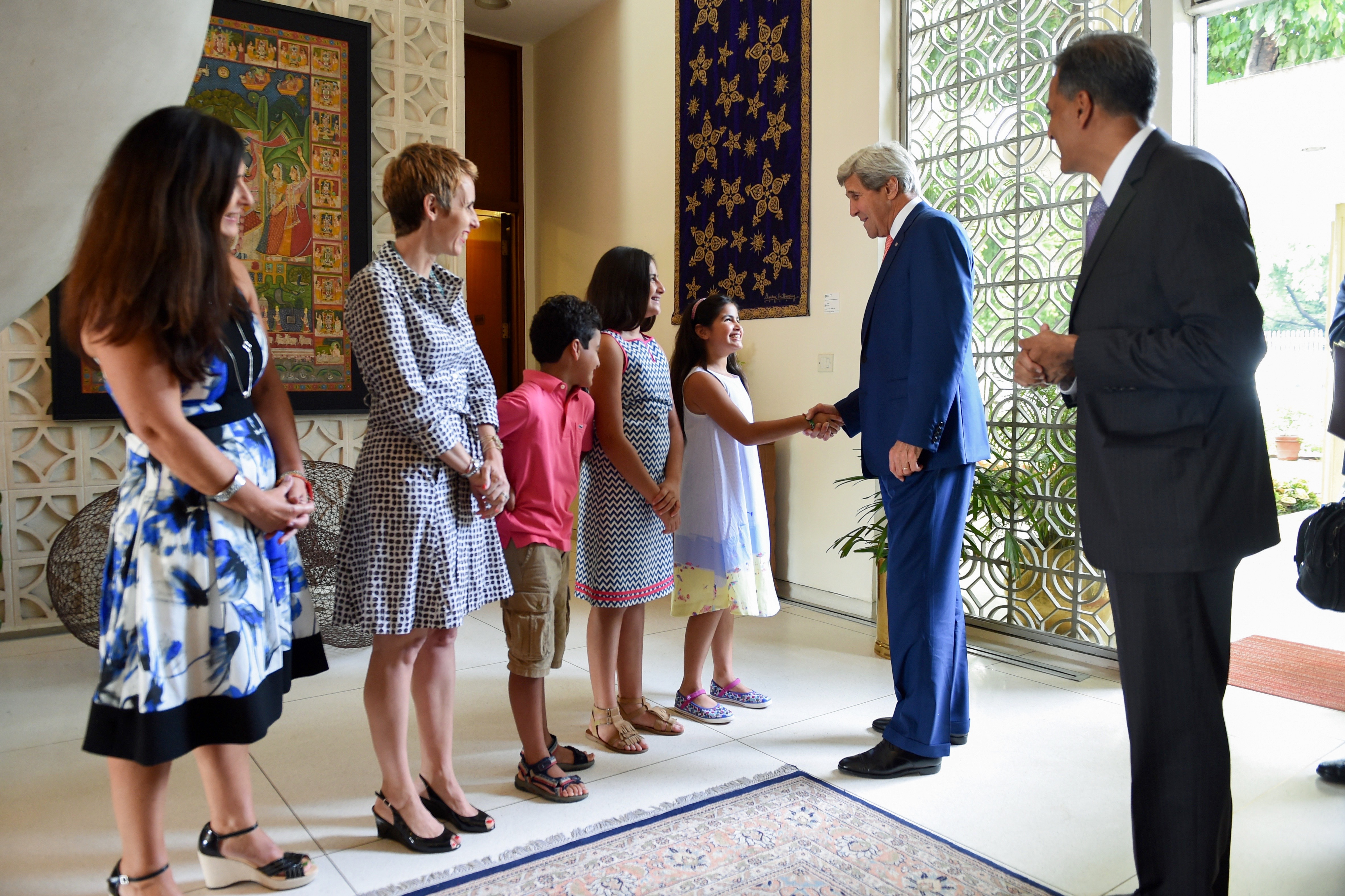 U.S. Secretary of State John Kerry greets U.S. Ambassador to India Richard Verma's family on August 31, 2016 in New Delhi, India. [State Department Photo/ Public Domain]